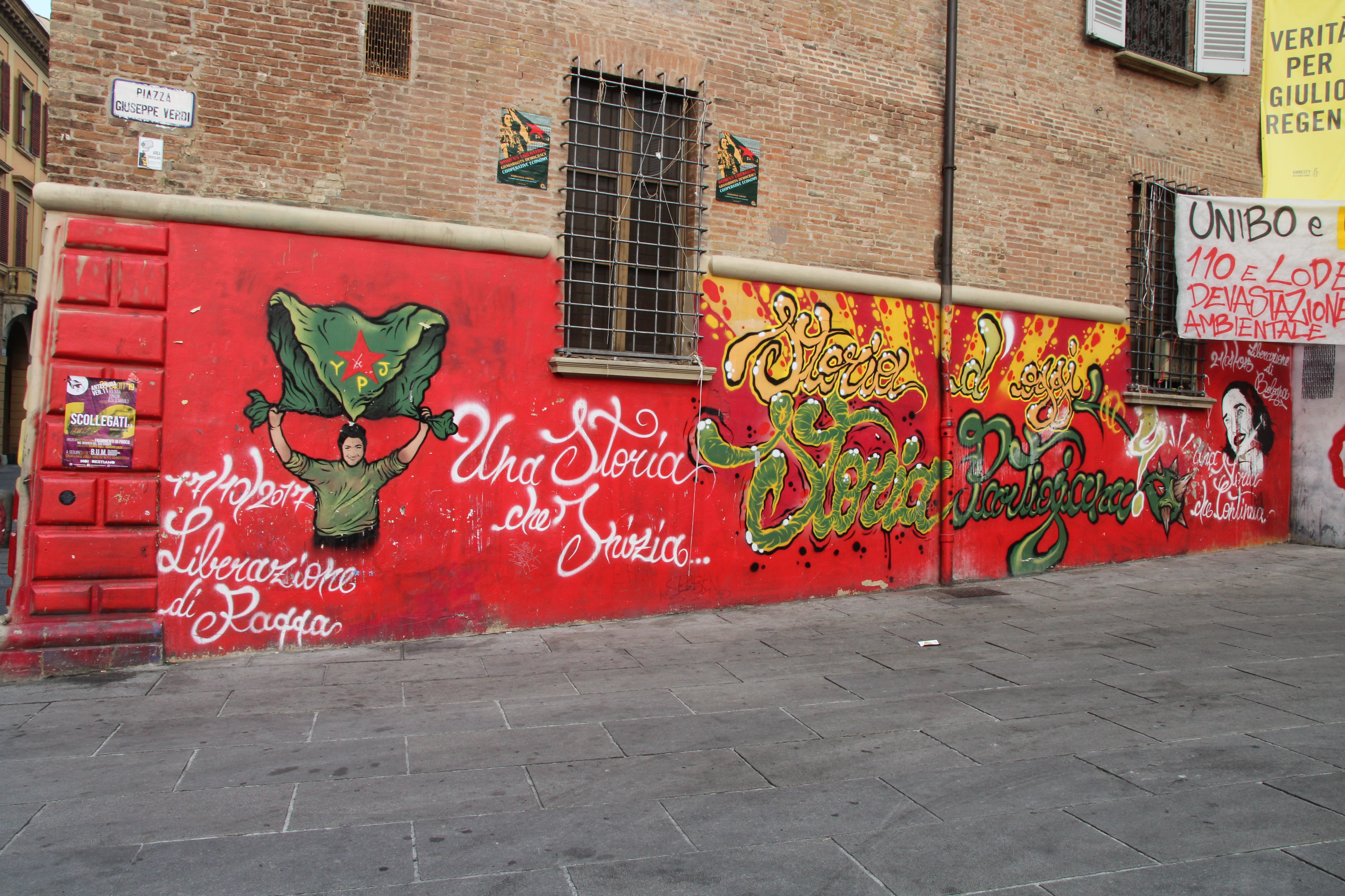 A graffiti art in Bologna, Italy